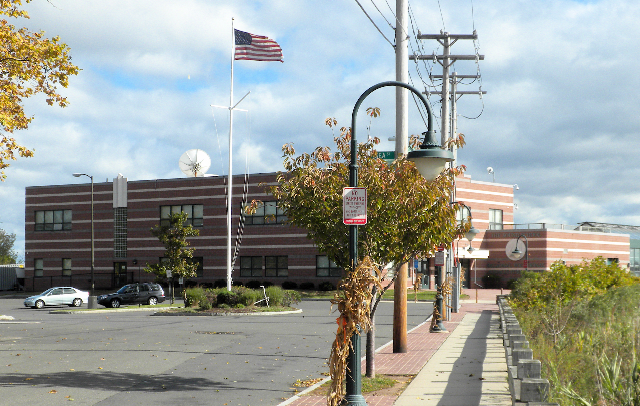 Sound School, City Point, New Haven.